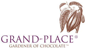 Logo of Grand Place Group